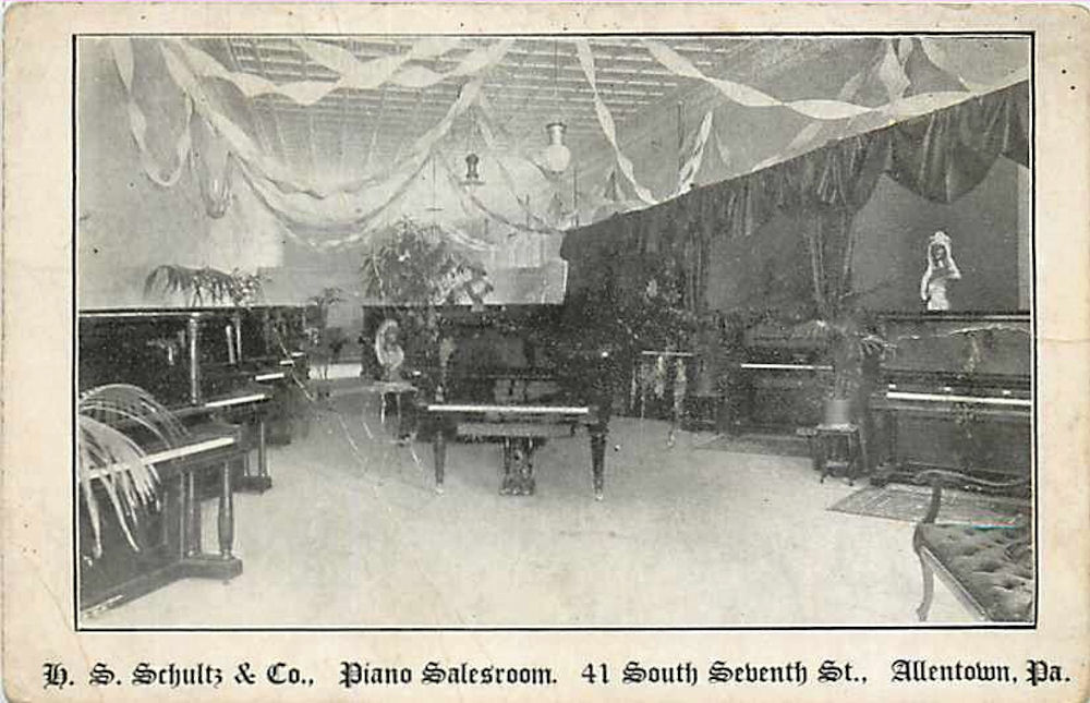 H S Schultz Piano Store Interior